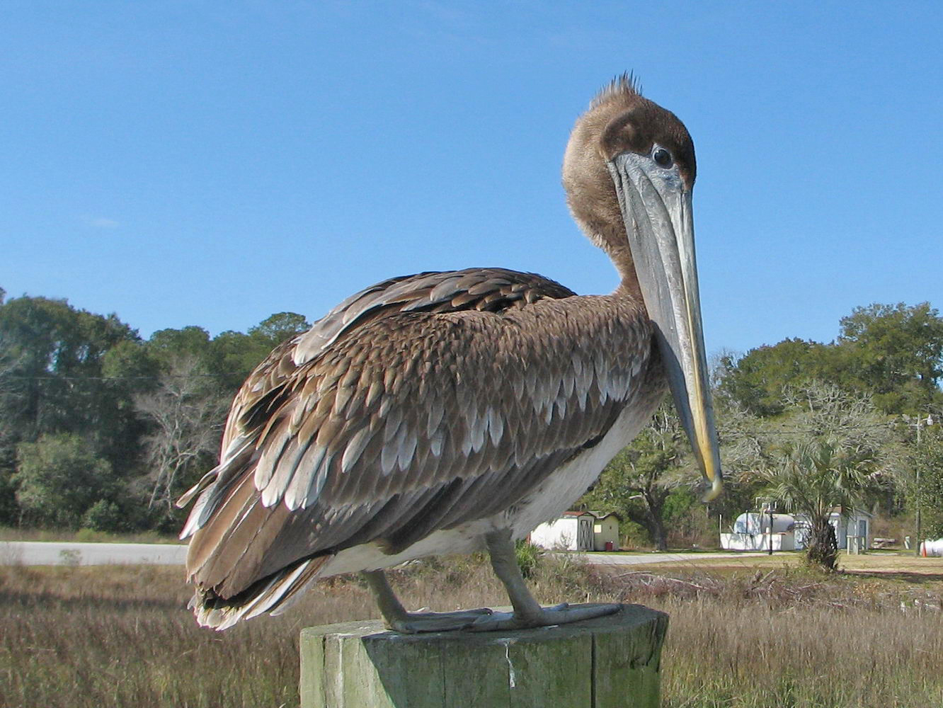 Juvenile Brown Pelican (Pelecanus_occidentalis) in North Carolina.